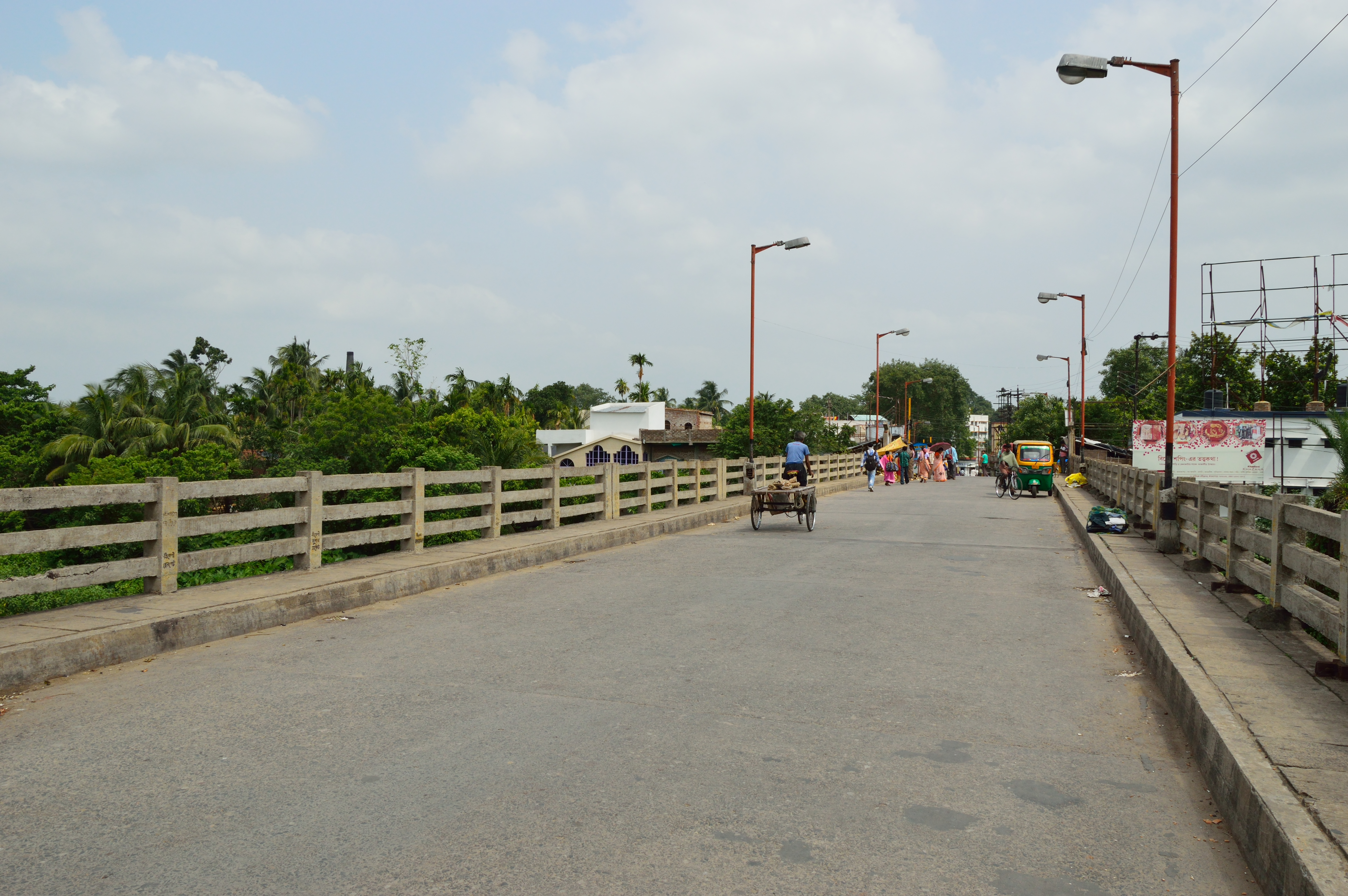 Photographed at Tribeni, Hooghly, West Bengal.